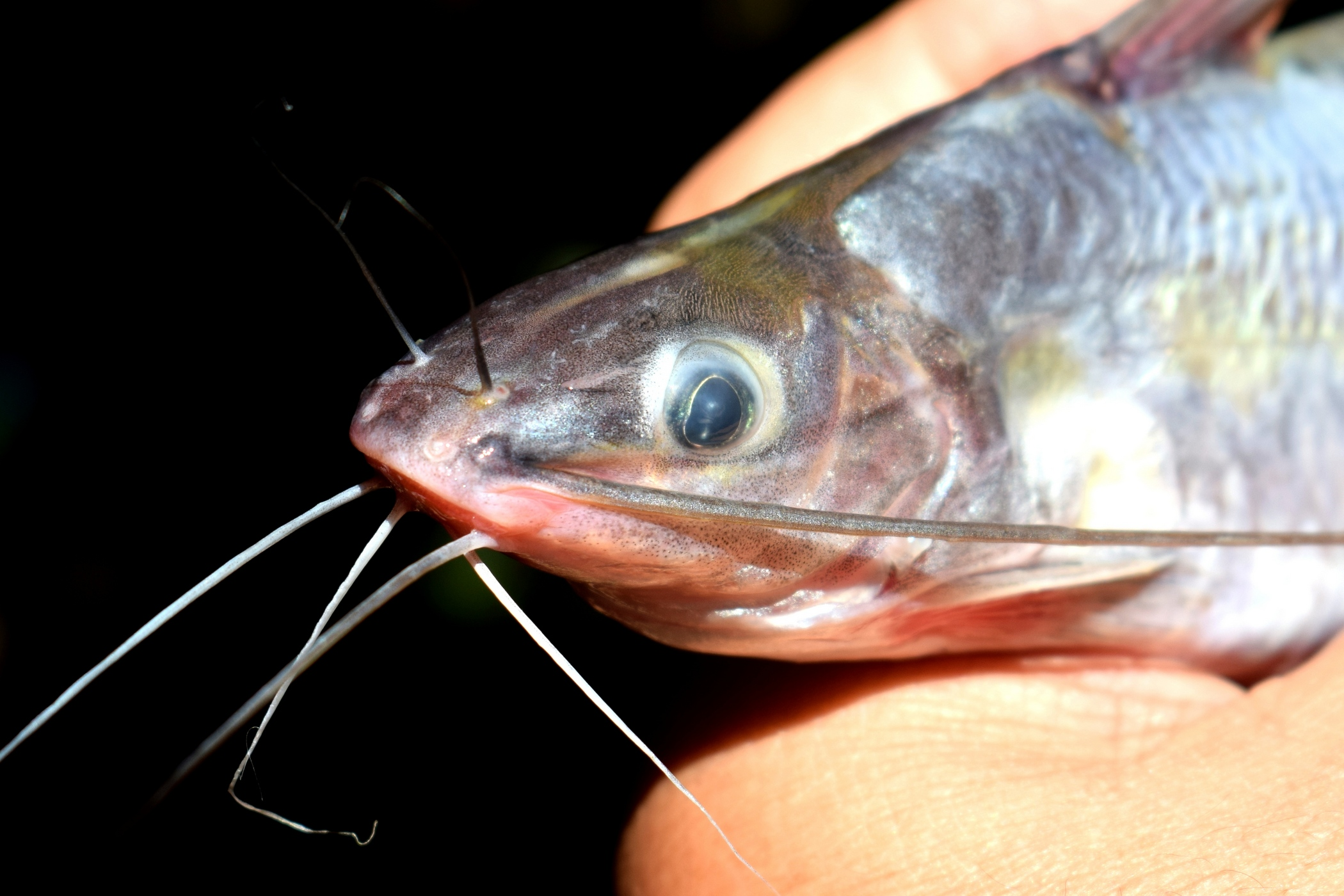 Mystus singaringan, female, 175mm SL; from Cihideung, a tributary of Cisadane River, Bogor, West Java, Indonesia. Left side of head.